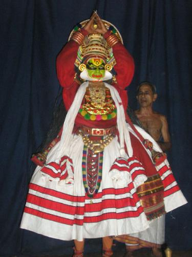 Kathakali performance in Kochi, India.